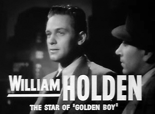 Screenshot of William Holden from the trailer for the film Invisible Stripes.